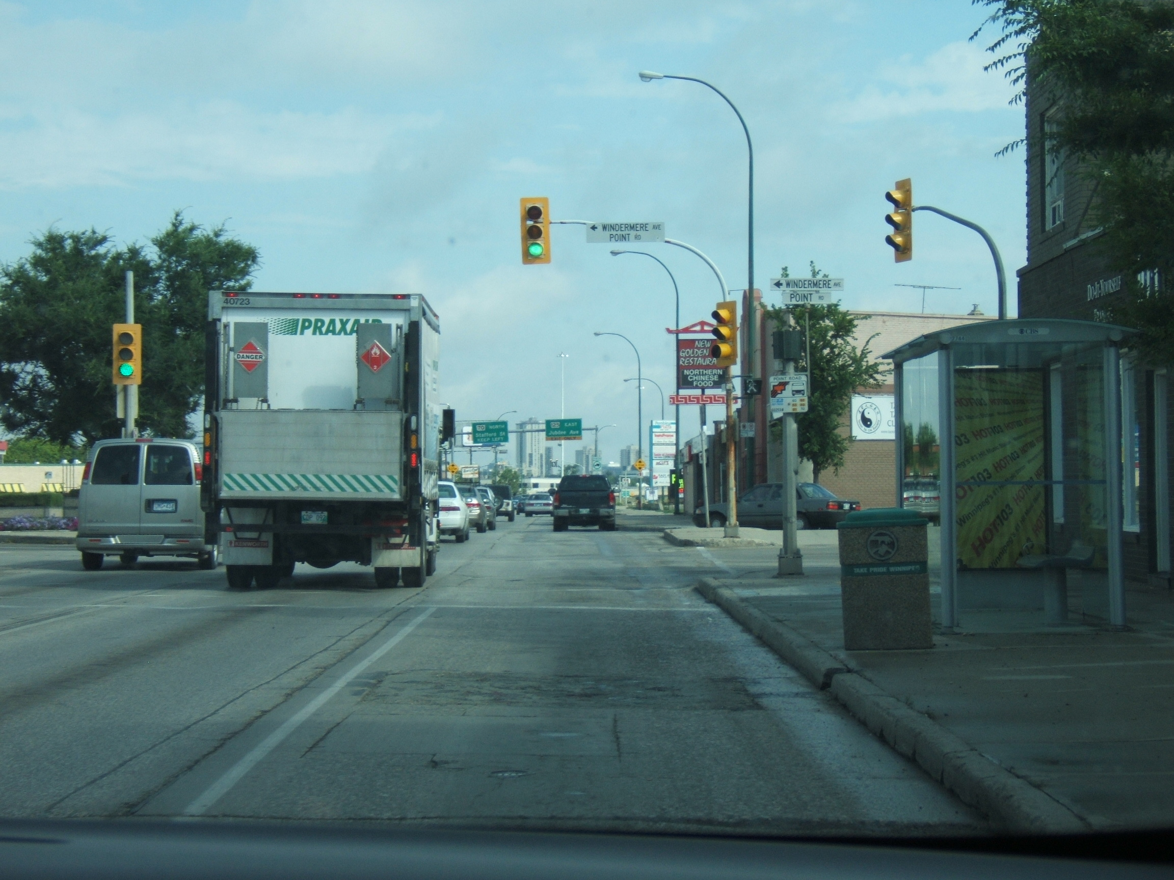 Heading north bound Pembina Hwy